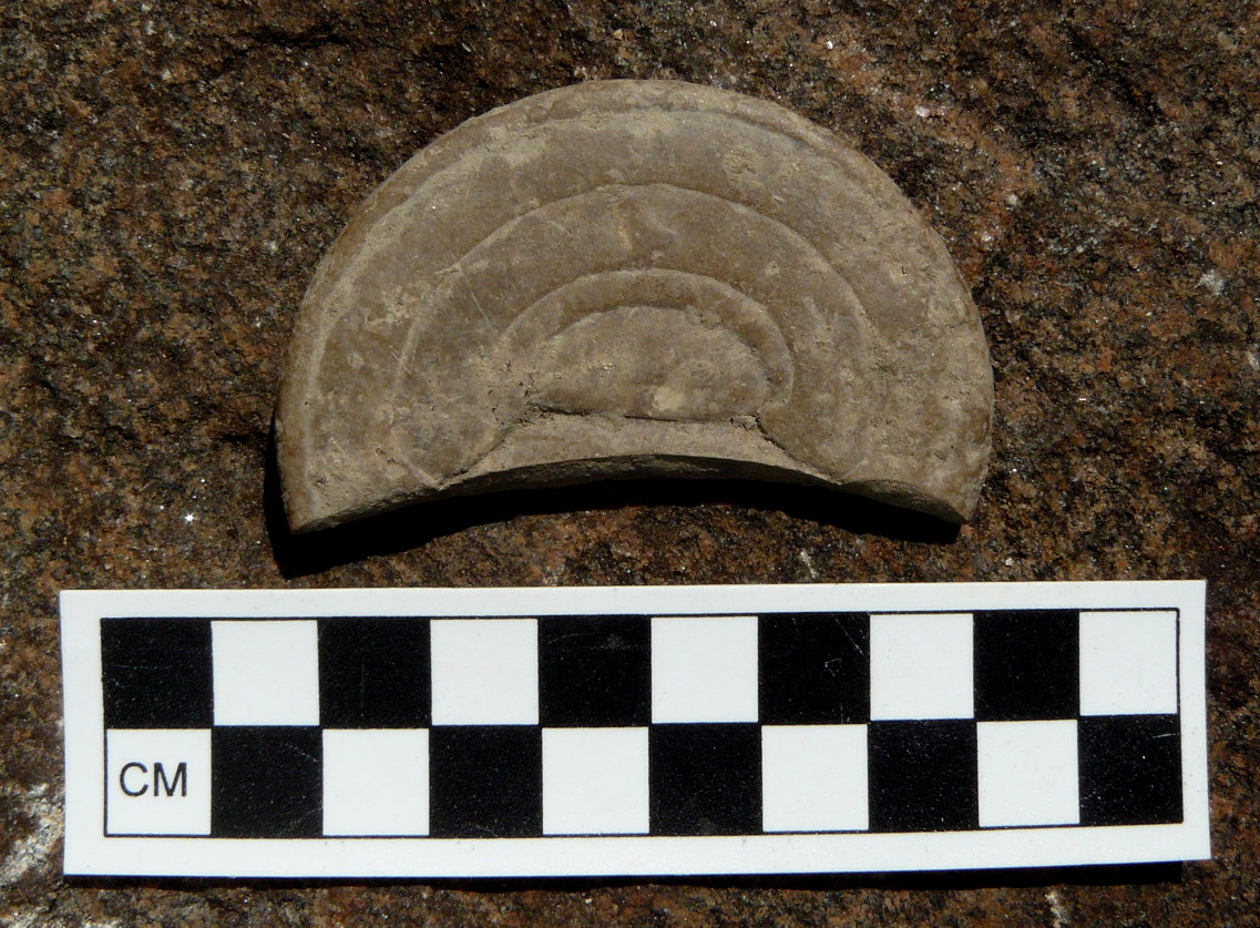 This fairy stone concretion, Sw. marleka, was found in June 2014 during excavations in a Medieval castle ruin at Stensö near Norrköping, Sweden.